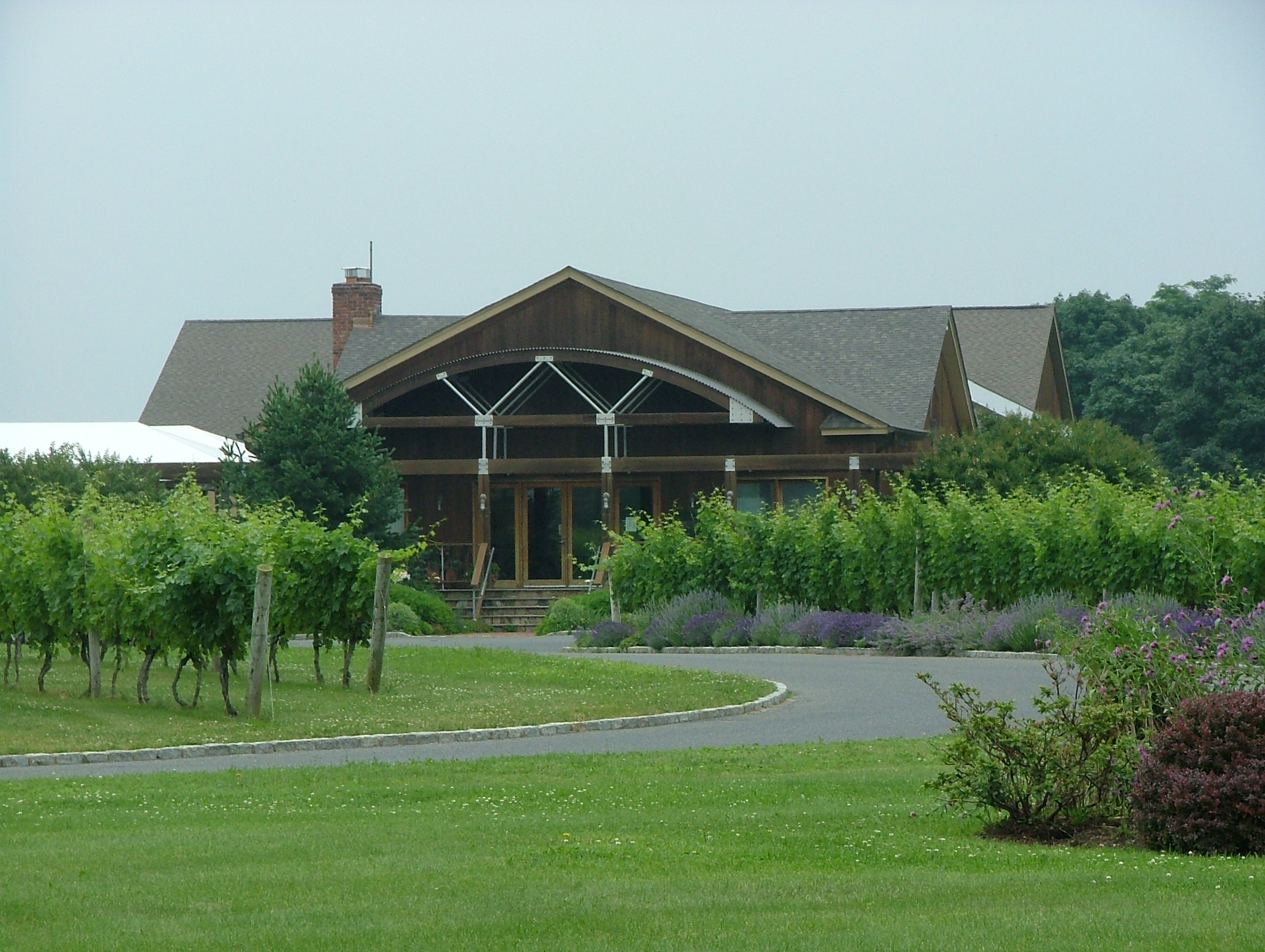 Winery and vineyard in the North Fork of the Long Island AVA.